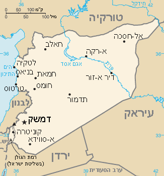 Map of Syria in Hebrew, based on File:Sy-map.png